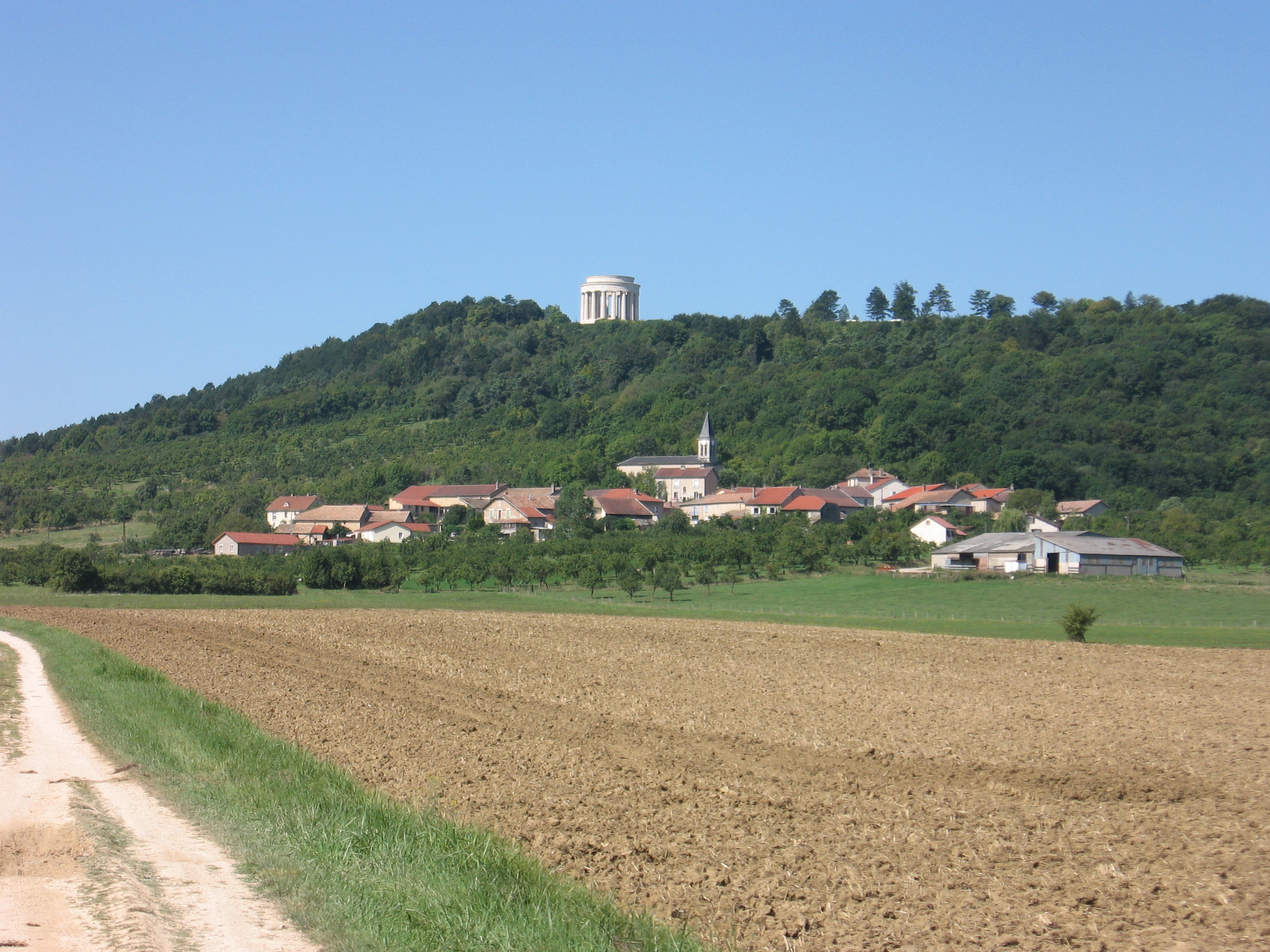 Montsec (Meuse)